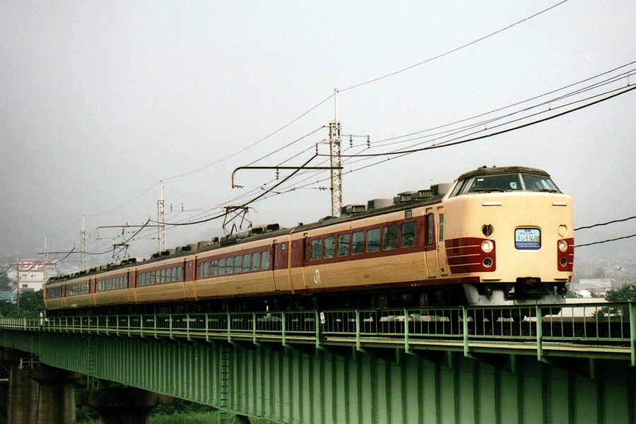 A JR East 183 series EMU on a Marine-blue Kujiranami rapid service